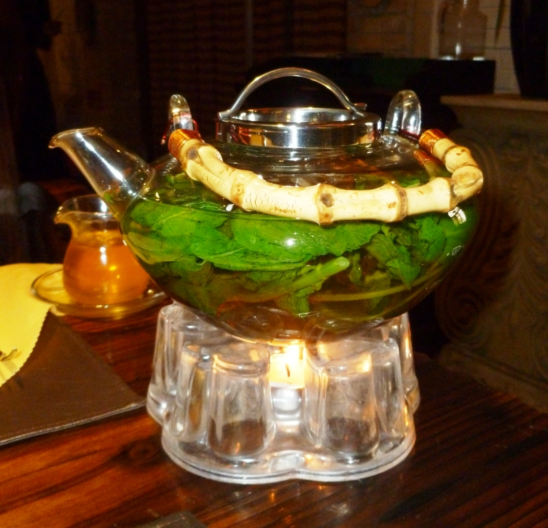 These kettles were in use in a Kashgar restaurant in 2011.